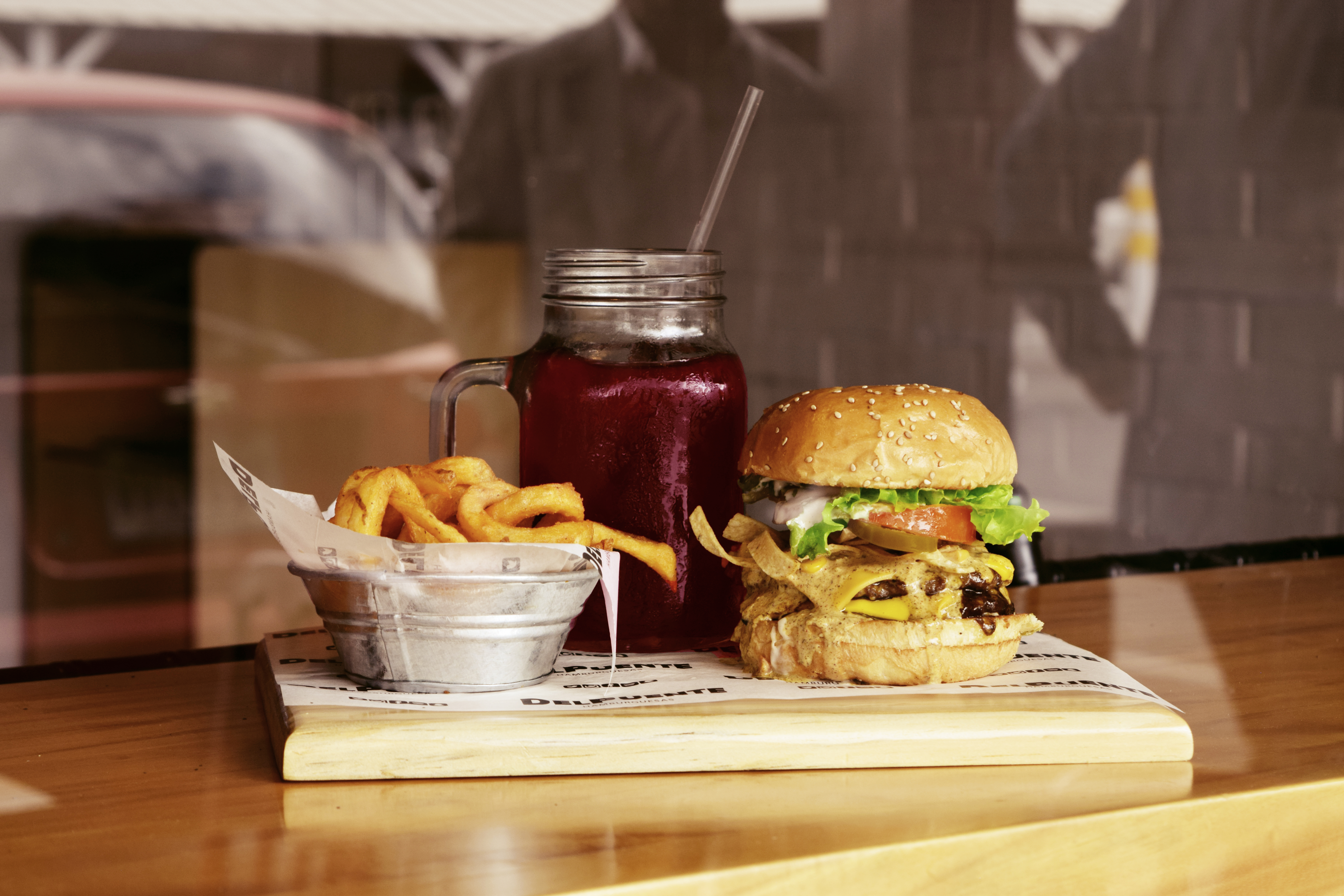 Javier Molina 2017